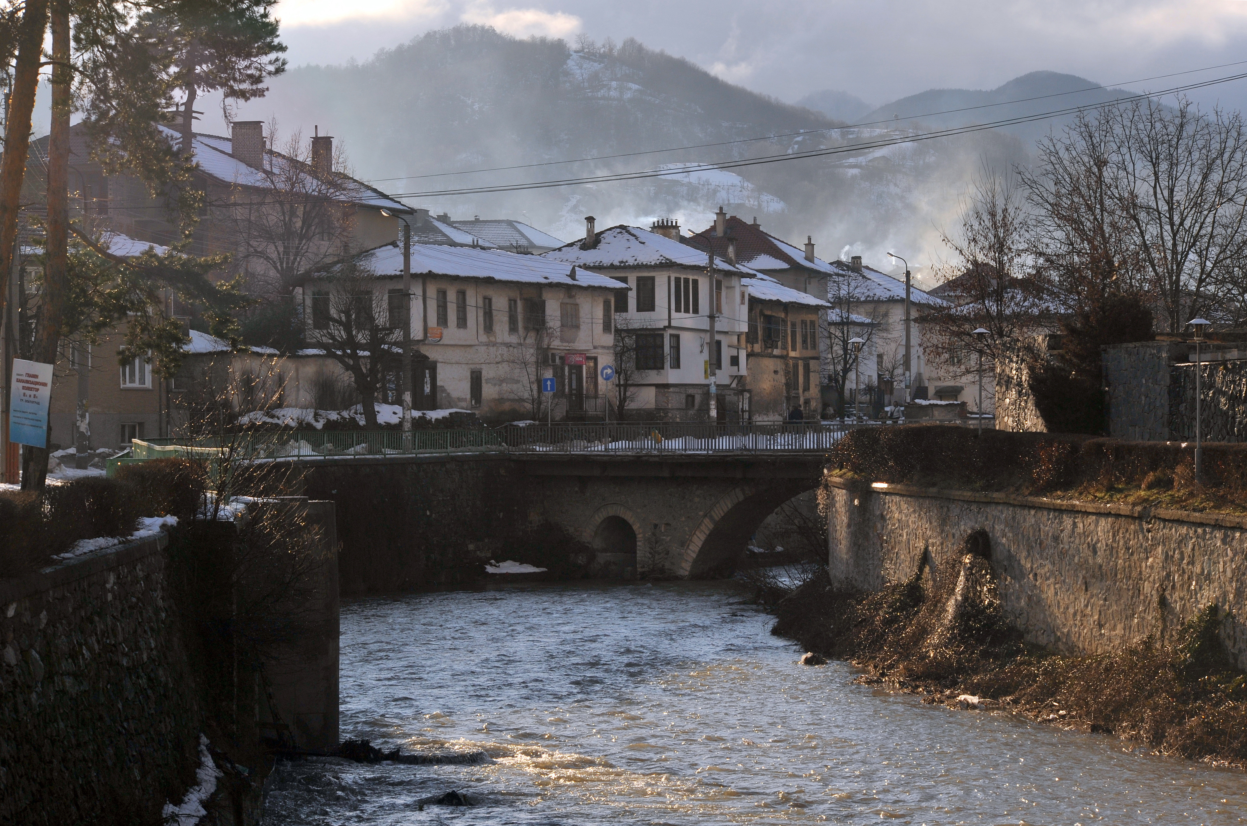 Zlatograd, Bulgaria.